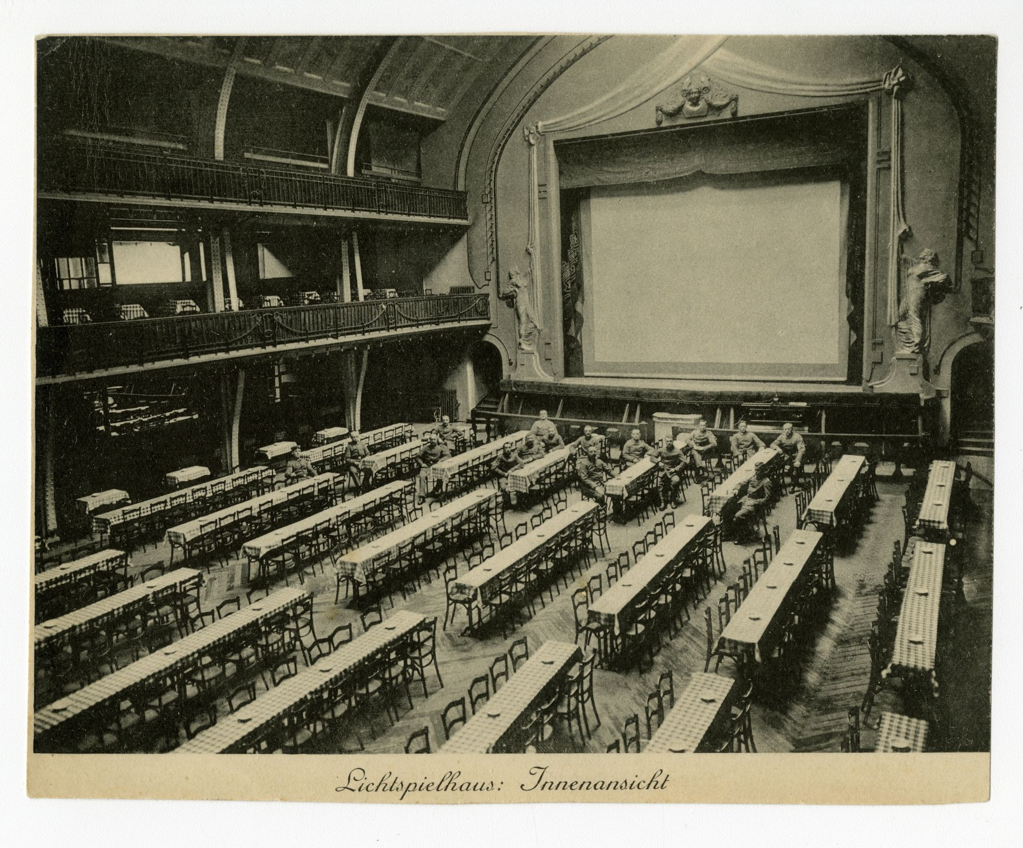 Ghent, Belgium: Kuiperskaai: Wintergarten (later known as Coliseum): German Soldiers' Cinema: Interior View, 1915